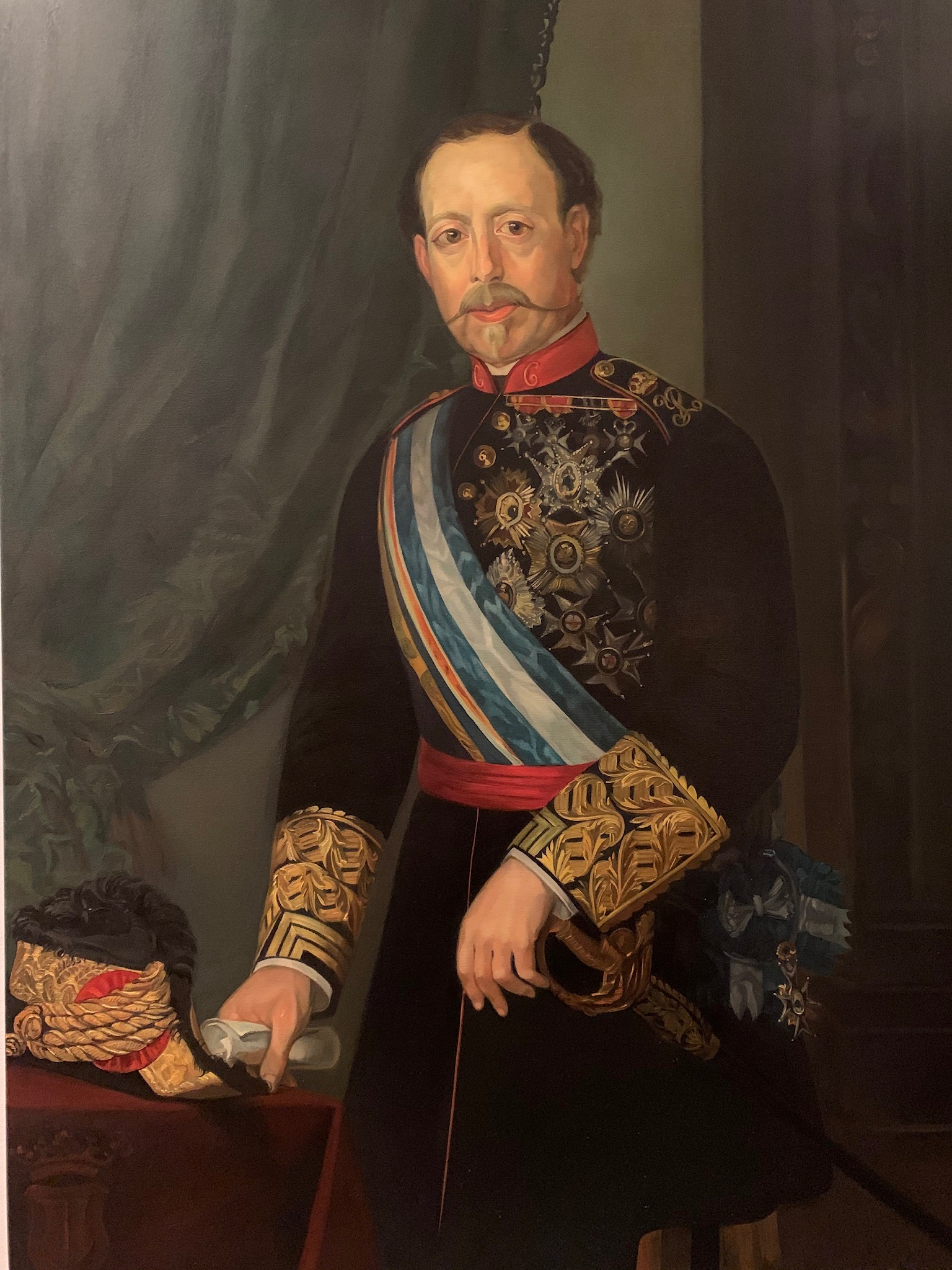 Portrait of Eusebio de Calonje y Fenollet (1813-1873), Spanish general, senator and Minister under the reign of Queen Isabel II